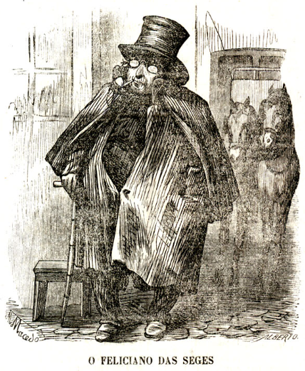 Feliciano of the Carriages, a popular coachman in 19th-century Lisbon.